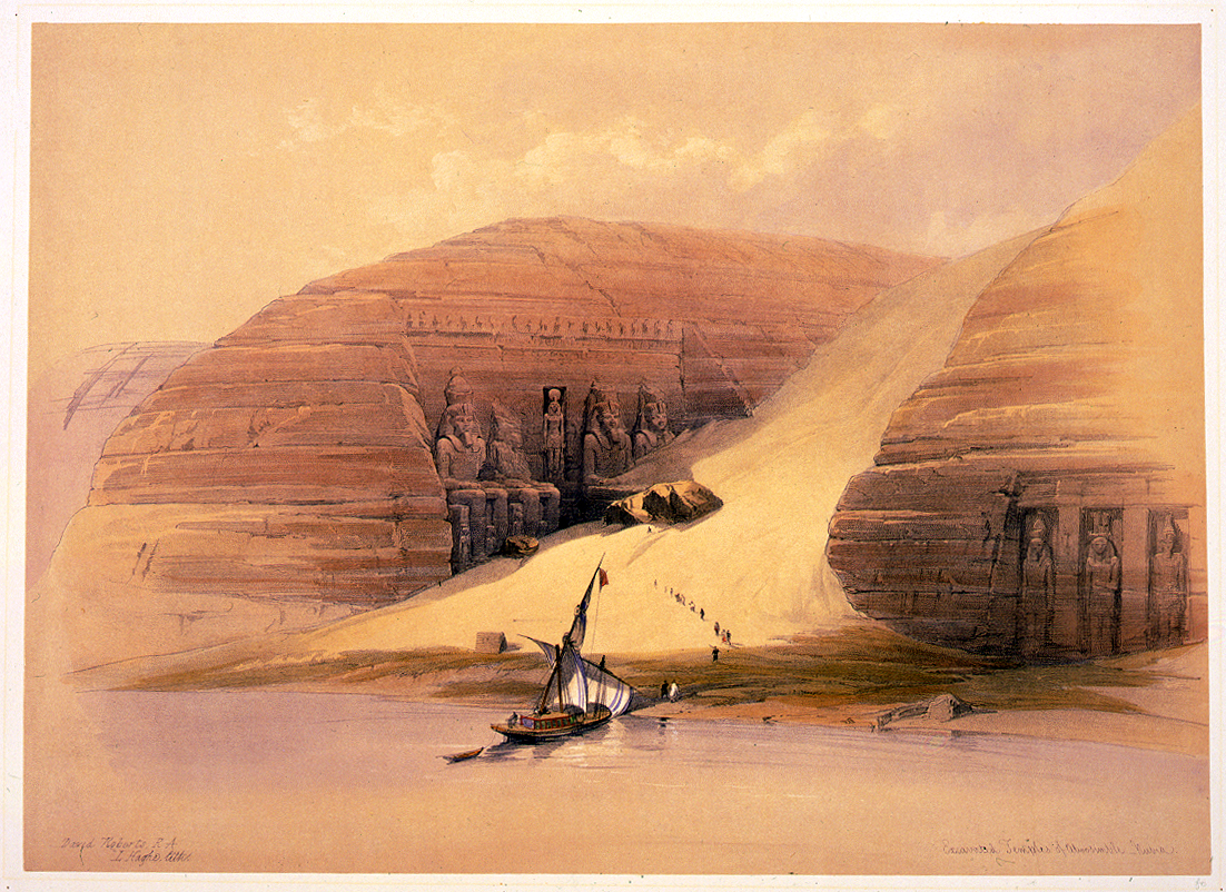 Picture of a print from David Roberts' Egypt & Nubia, issued between 1845 and 1849.